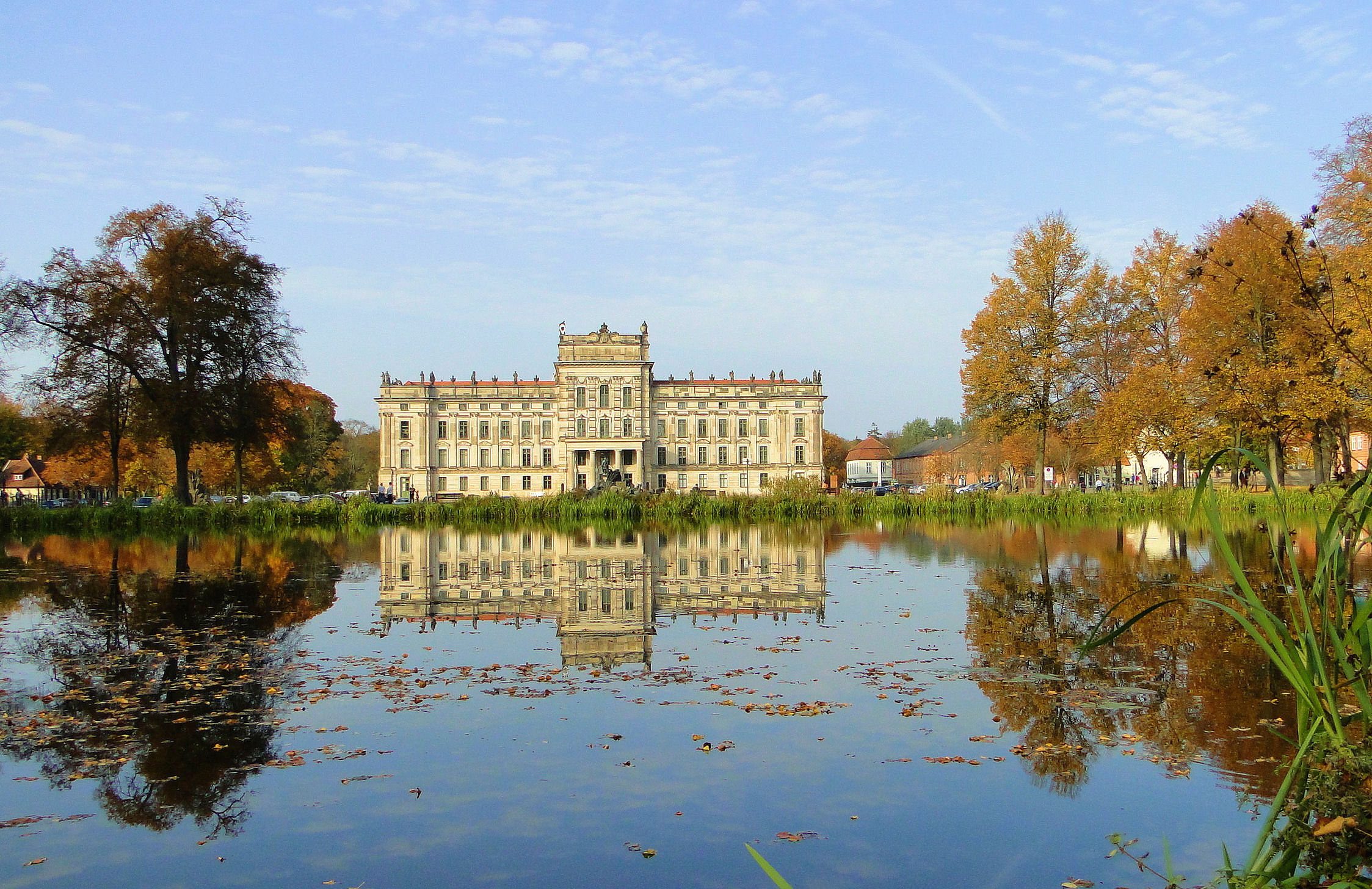 Castle in Ludwigslust, district Ludwigslust-Parchim, Mecklenburg-Vorpommern, Germany